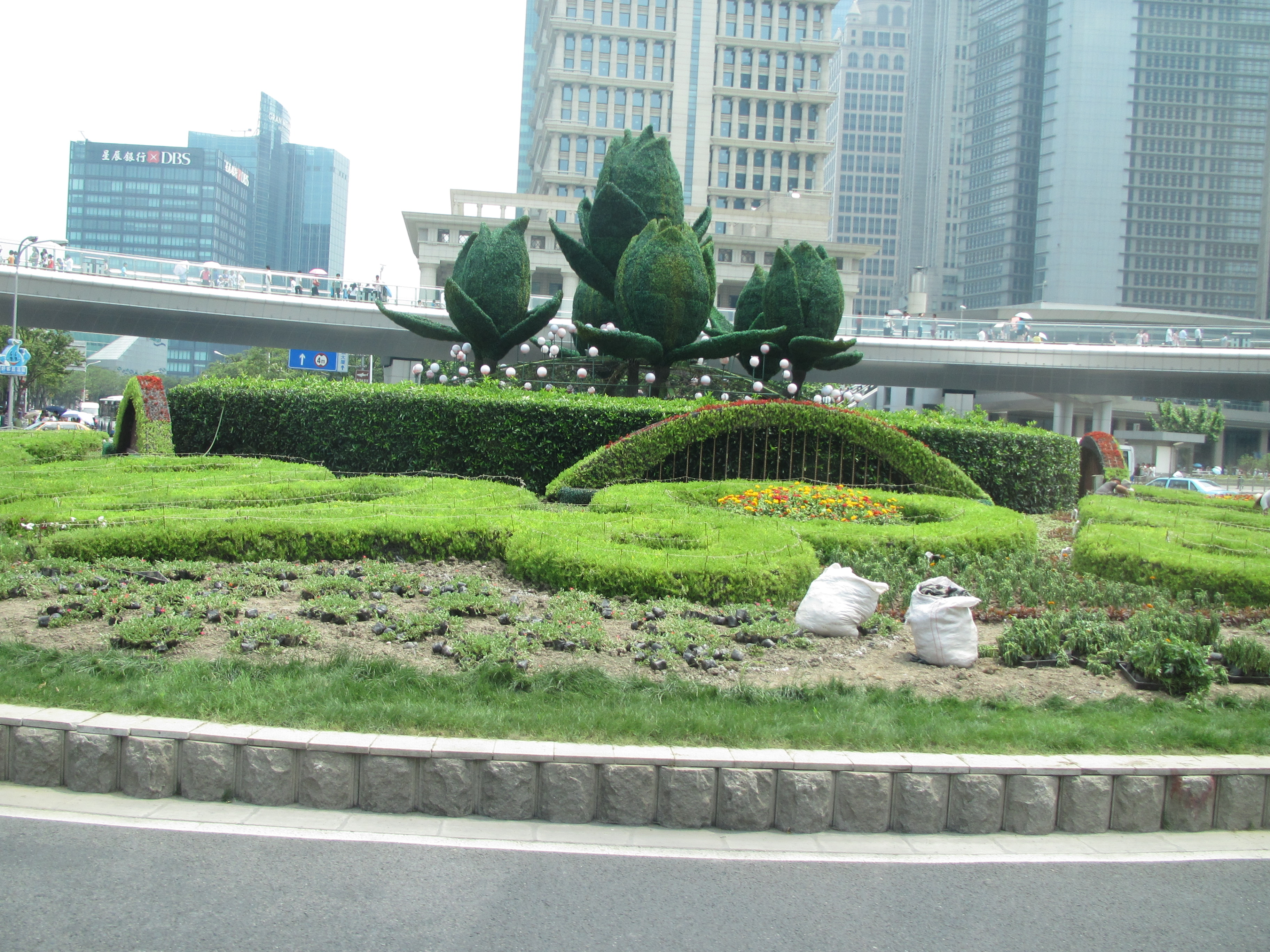 A garden arounded by street in Shanghai, 2 July 2011 morning.